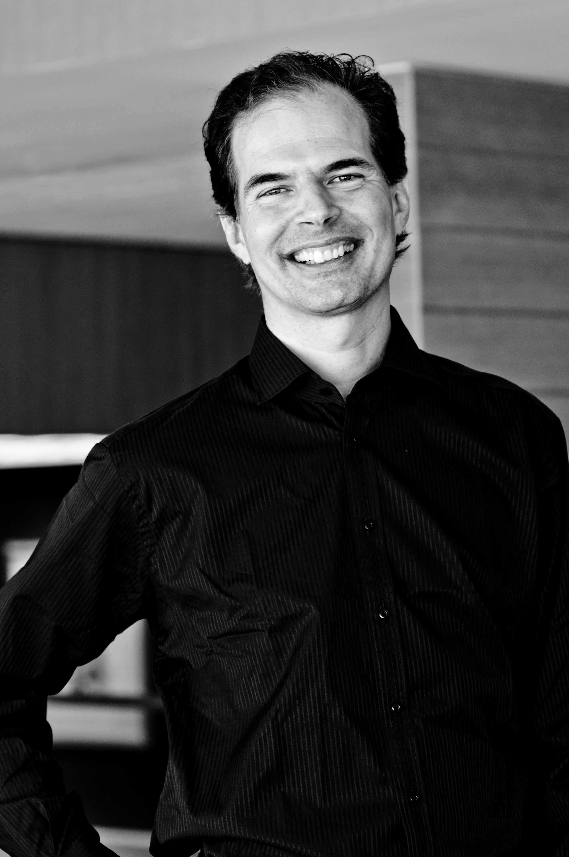 Steve Omohundro in San Francisco.